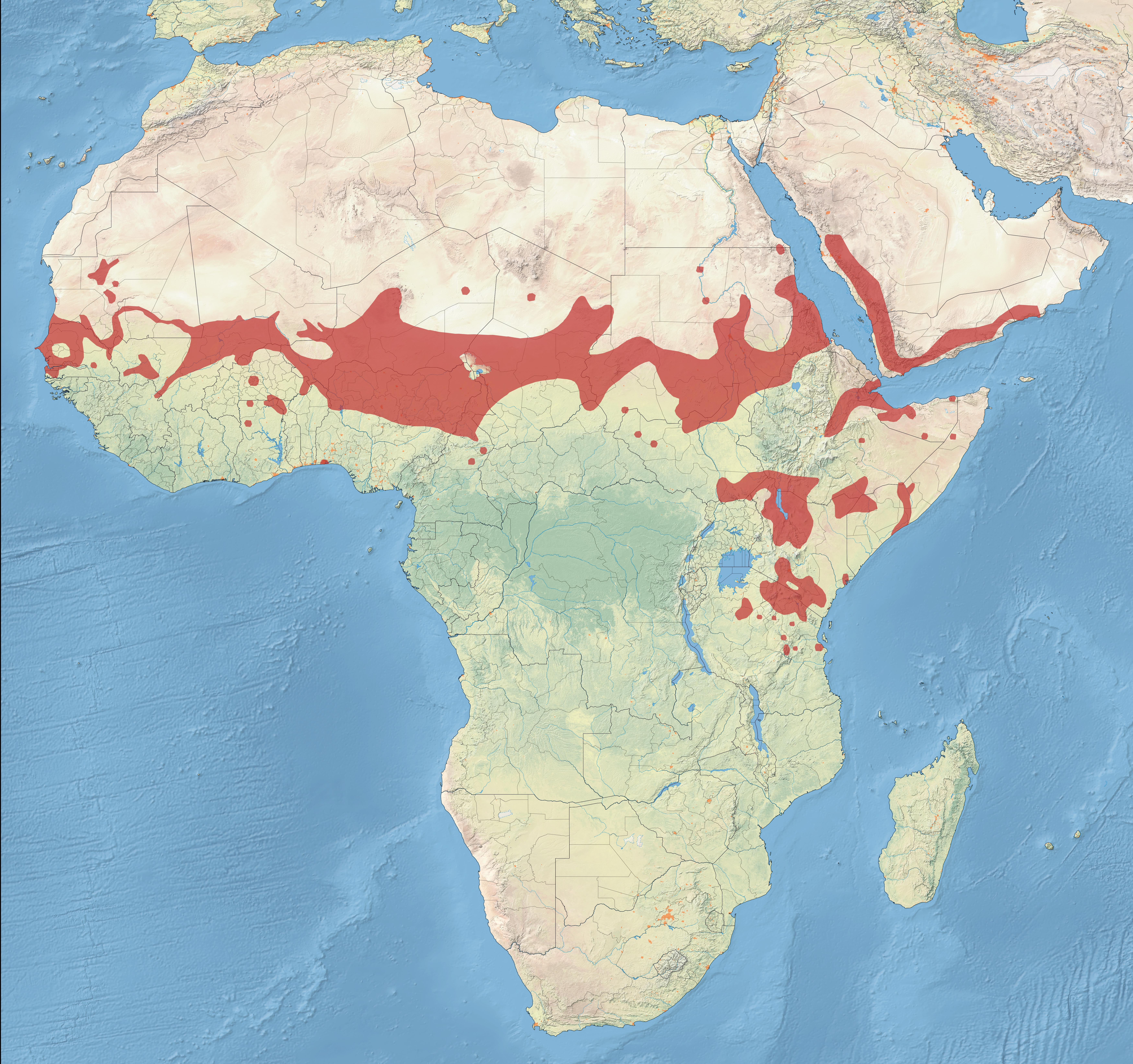 The IUCN Distribution of African Silverbill Maroon = Resident Purple = Breeding Orange = Non-breeding Hatched = Passage Grey = Possibly Extinct Blue = Introduced